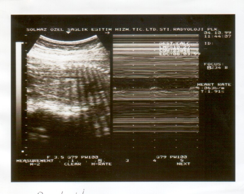 Ultrasound scan. Provided as-is. Please feel free to categorise, add description, crop or rename.